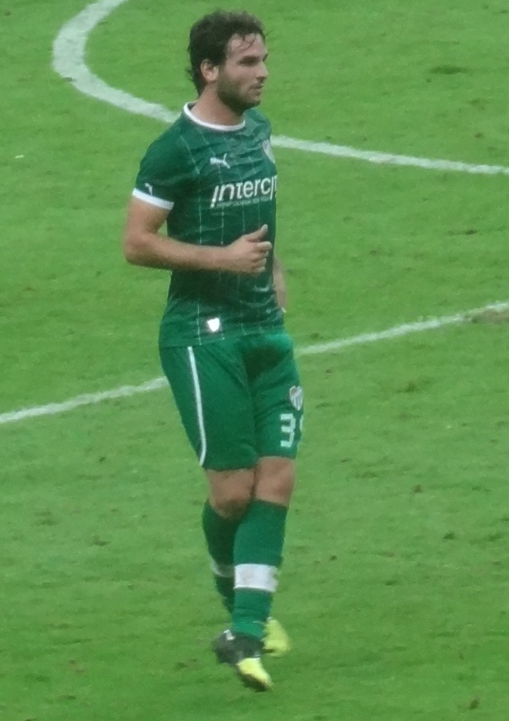 Musa at Galatasaray match.